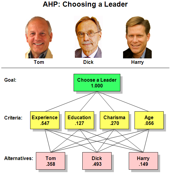 Illustration for Analytic Hierarchy Process article, drawn by me and released to the public domain. This is its first publication.